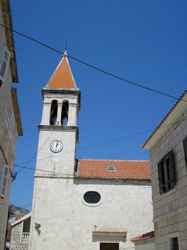 Church in Croatia